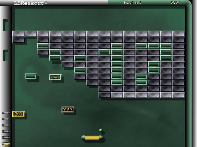 ingame screenshot of LBreakout2